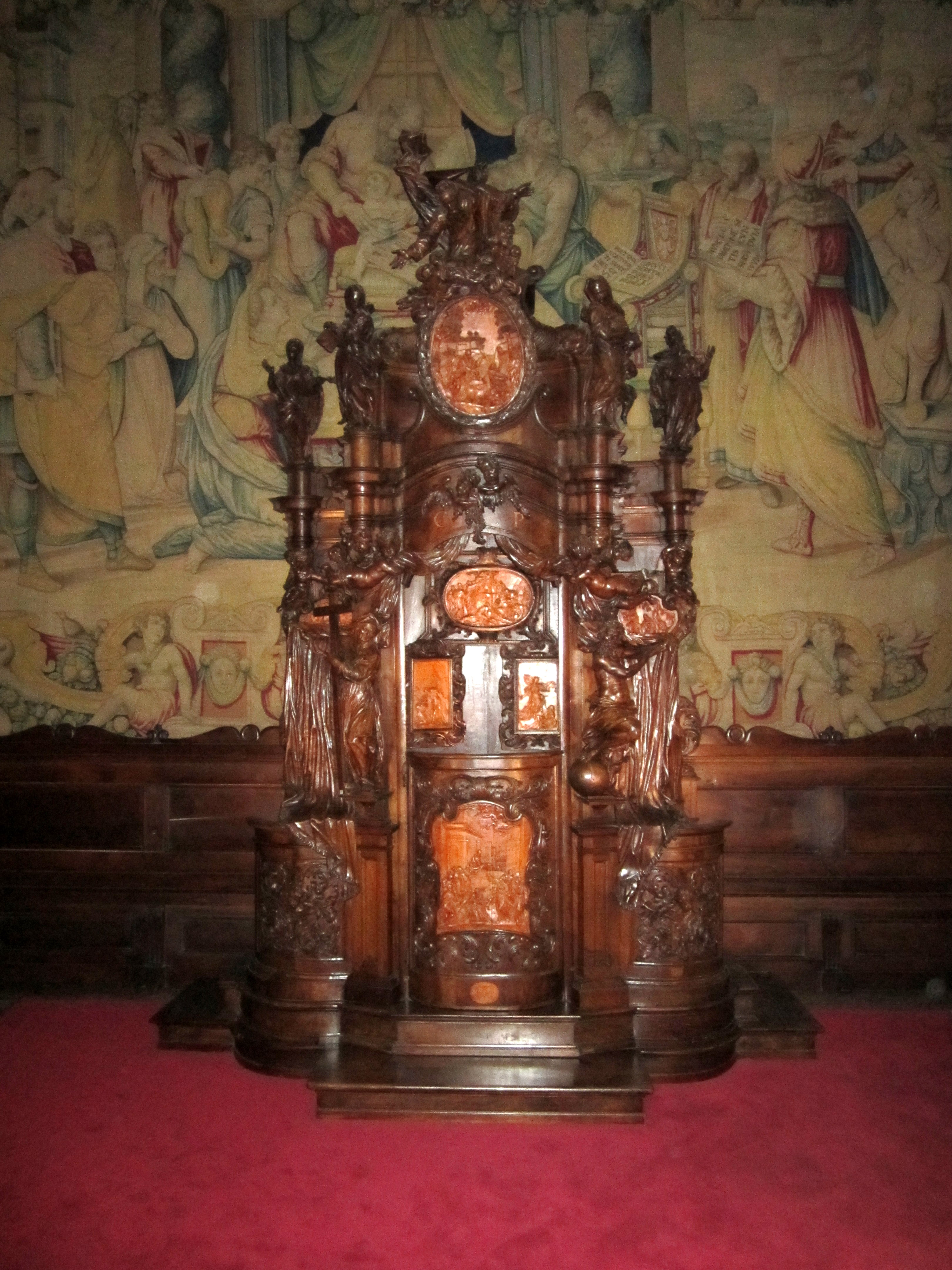 Baroque confessional carved by Andrea Fantoni. Santa Maria Maggiore (Bergamo)